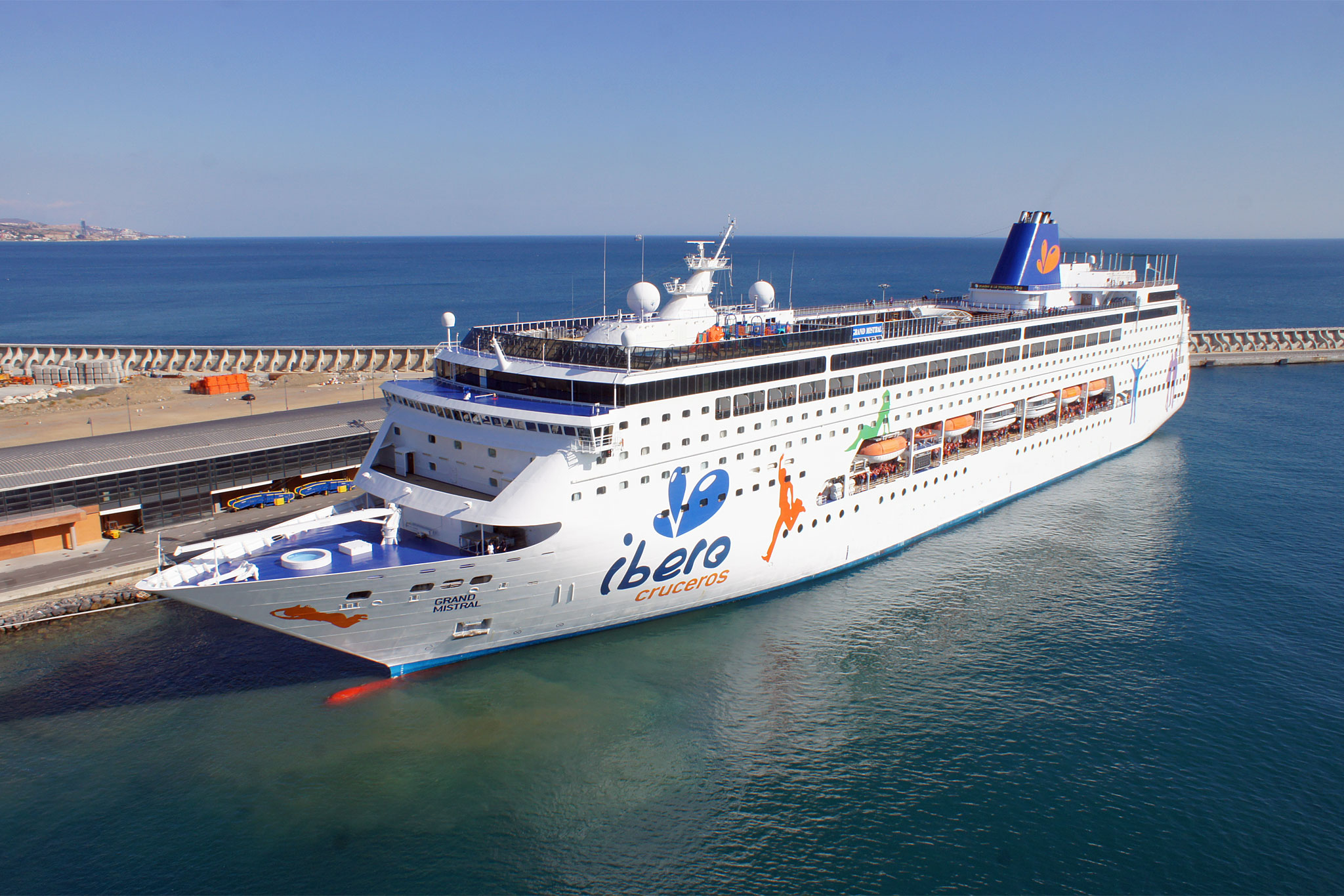 The cruise ship Grand Mistral moored at Málaga on October 17, 2010.